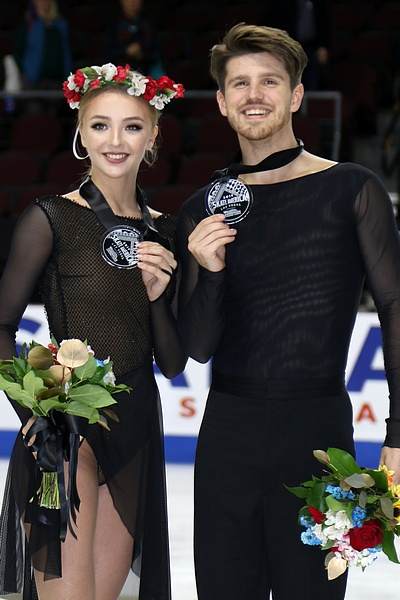 Alexandra Stepanova and Ivan Bukin - 2019 Skate America - Awarding ceremony